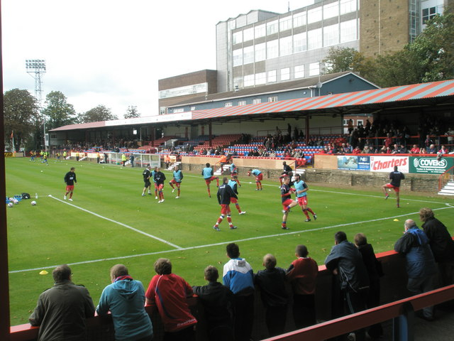 Rigorous pre match warm up at The Recreation Ground